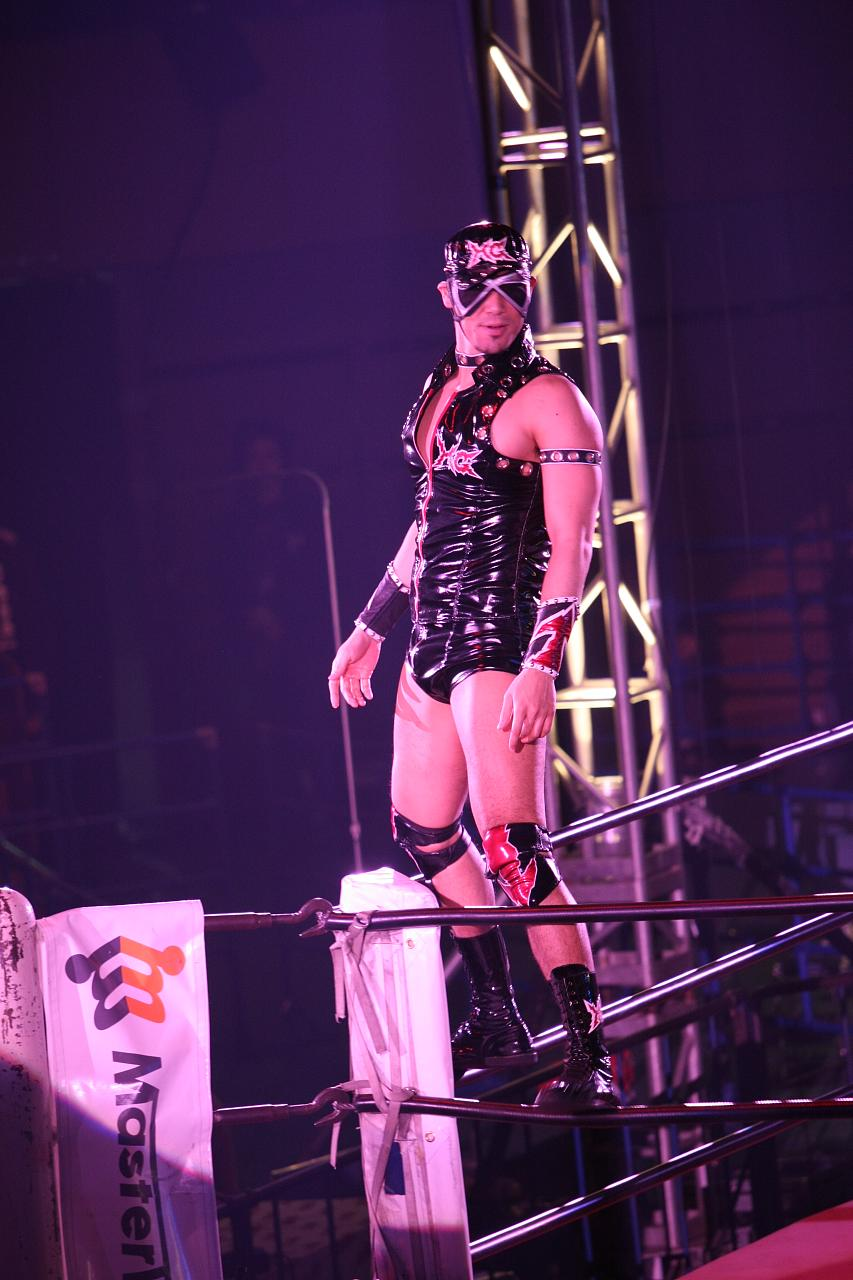 Razor Ramon Hard Gay